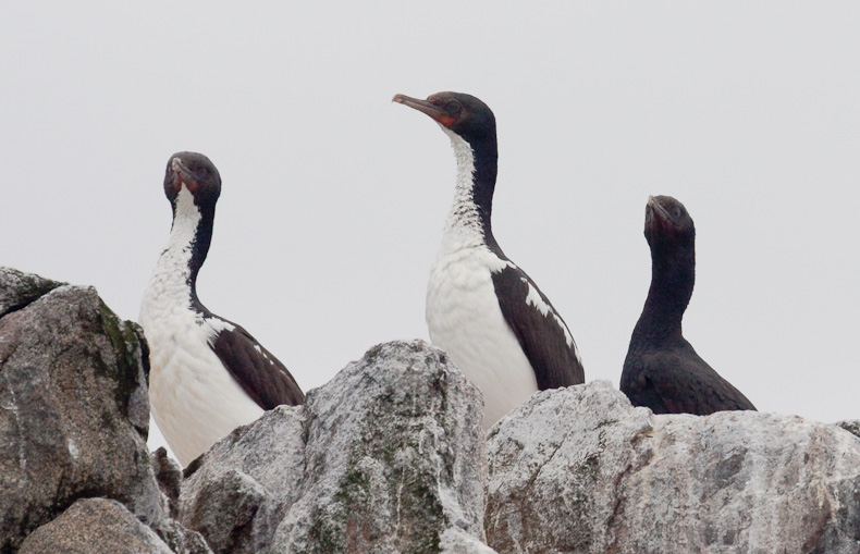 Stewart island Shags